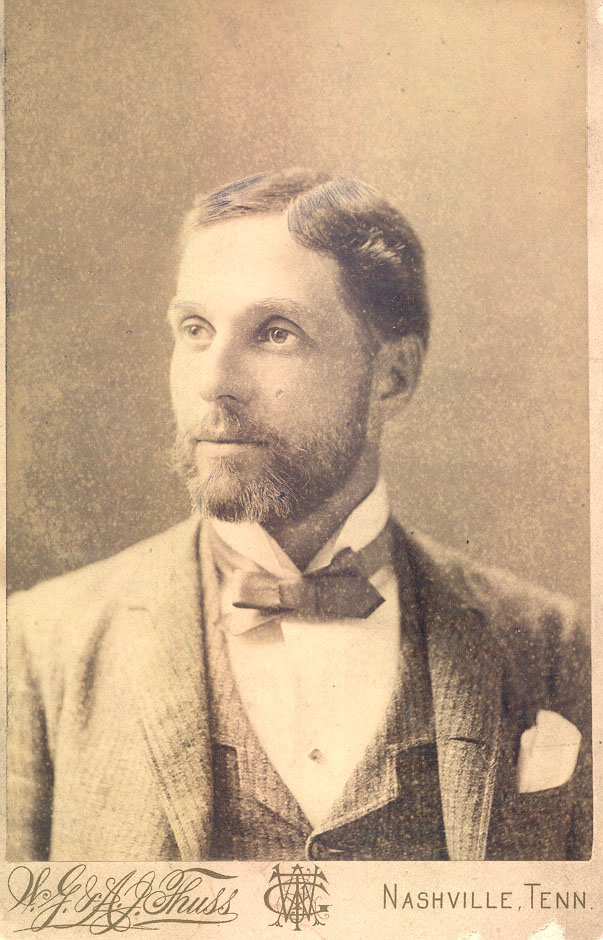 Vanderbilt chemistry professor and sports figure William Lofland Dudley (1859 – 1914)